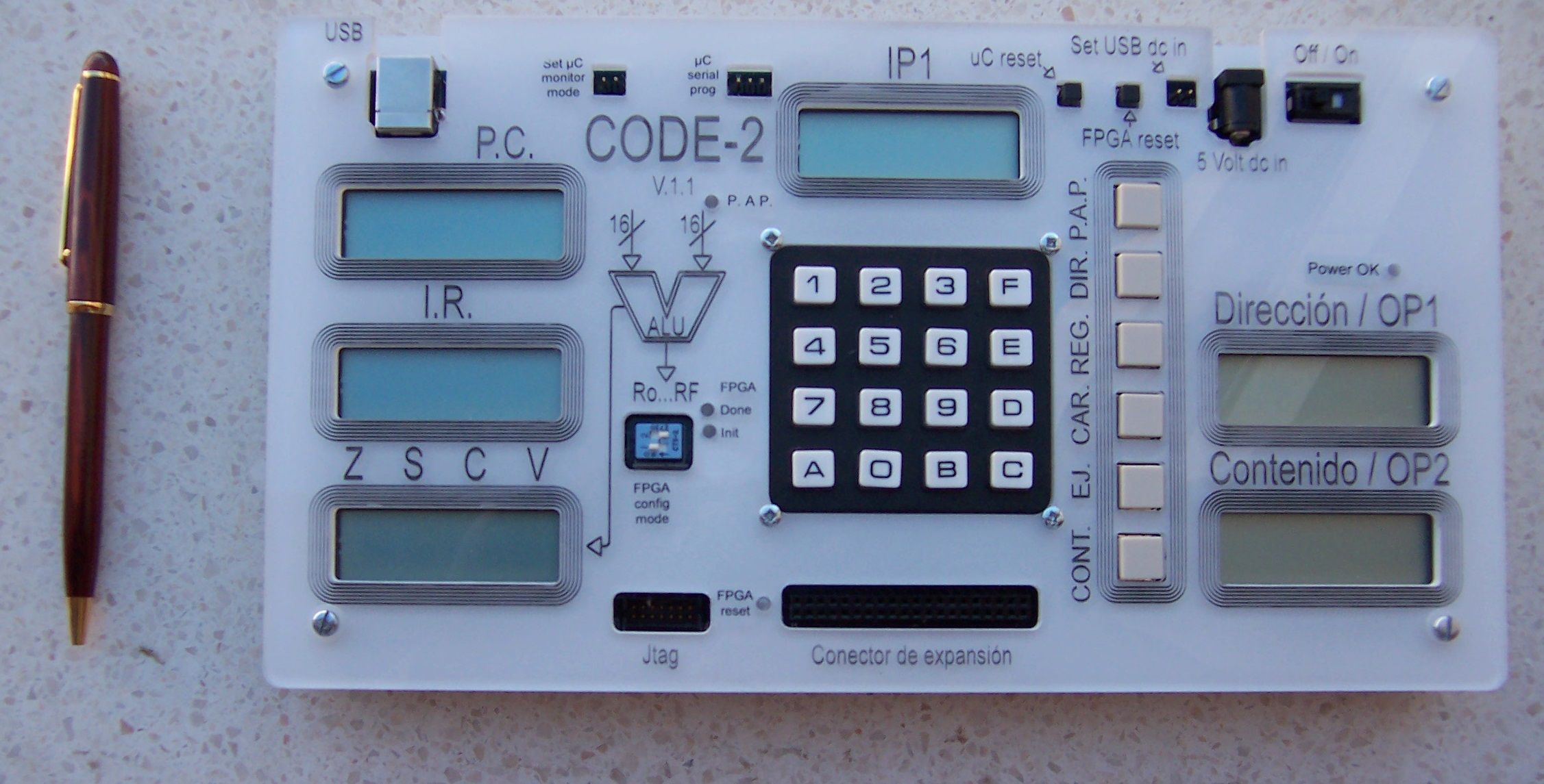 CODE2 version marketed by Seven Solutions.